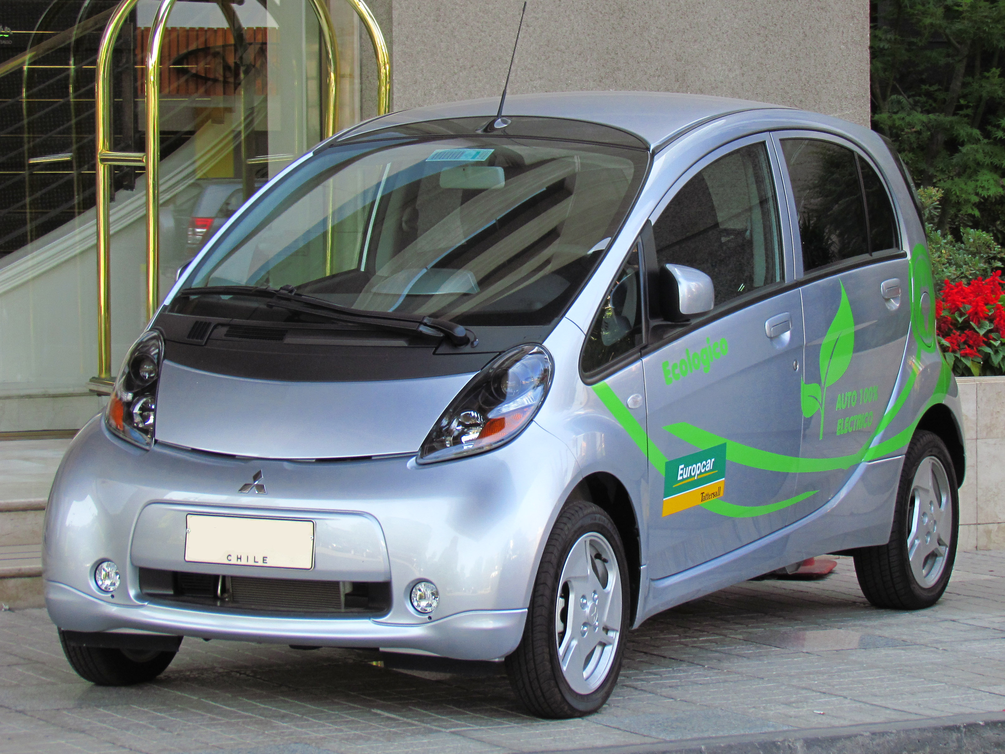 Mitsubishi i-MiEV 2012 in Chile